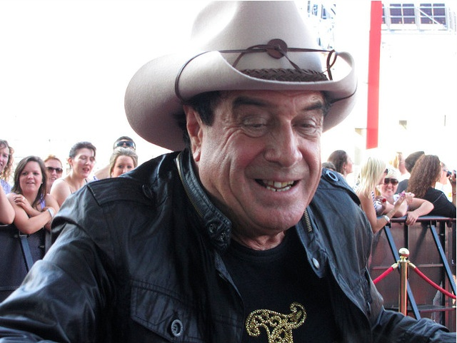 Ian "Molly" Meldrum outside Acer Arena to attend the ARIA Music Awards of 2009 Camera: Canon PowerShot SX1 IS License on Flickr: CC-BY-2.0